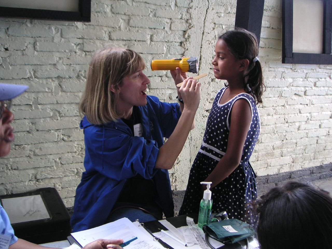 A health checkup in Tegucigalpa, HondurasHONDURAS2004128